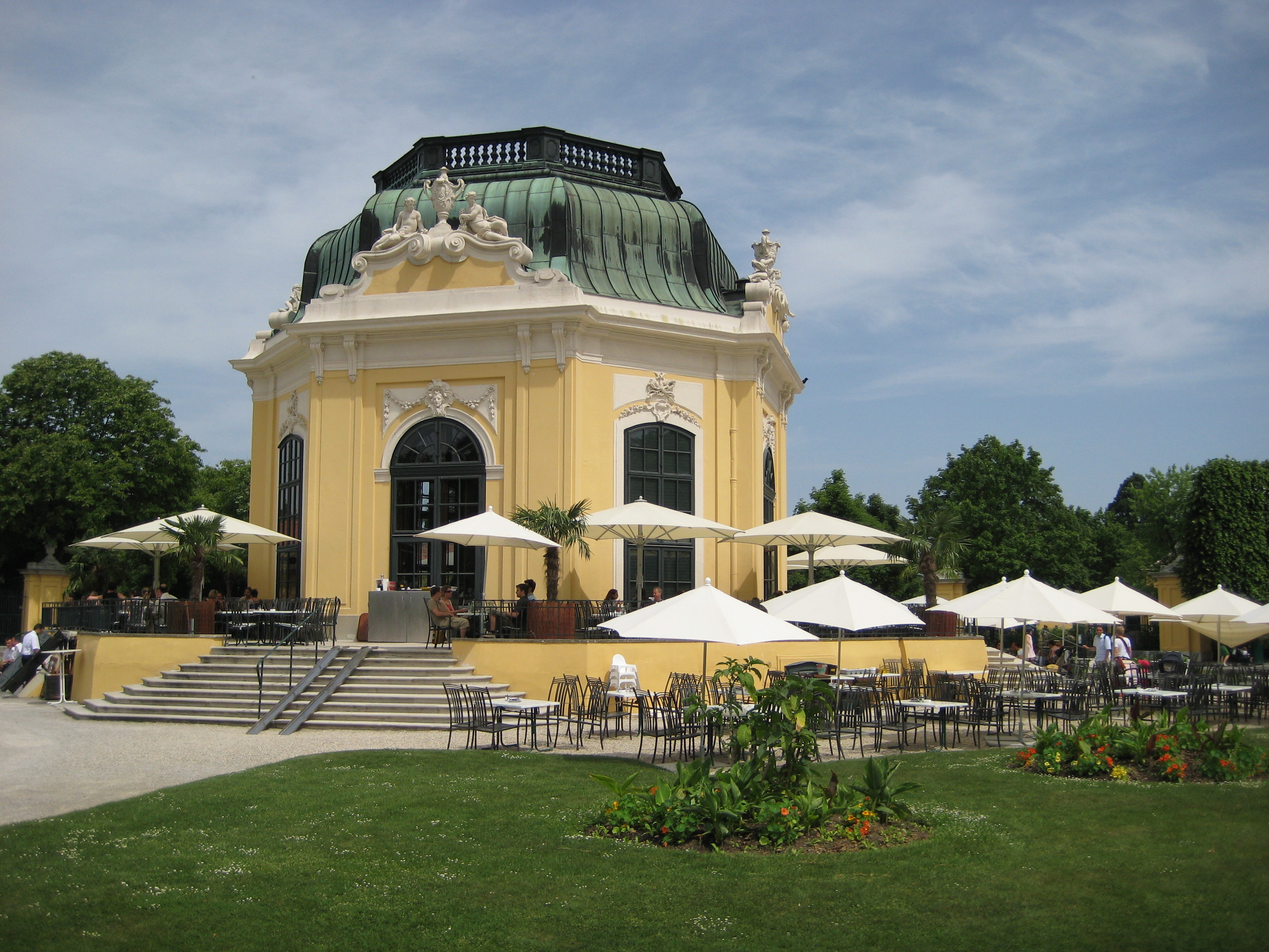 Kaiserpavillon at Tiergarten Schönbrunn